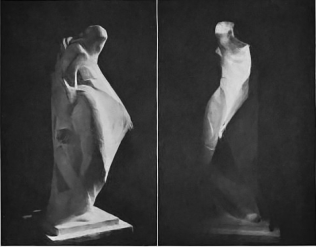 "Medea" by Alice Morgan Wright